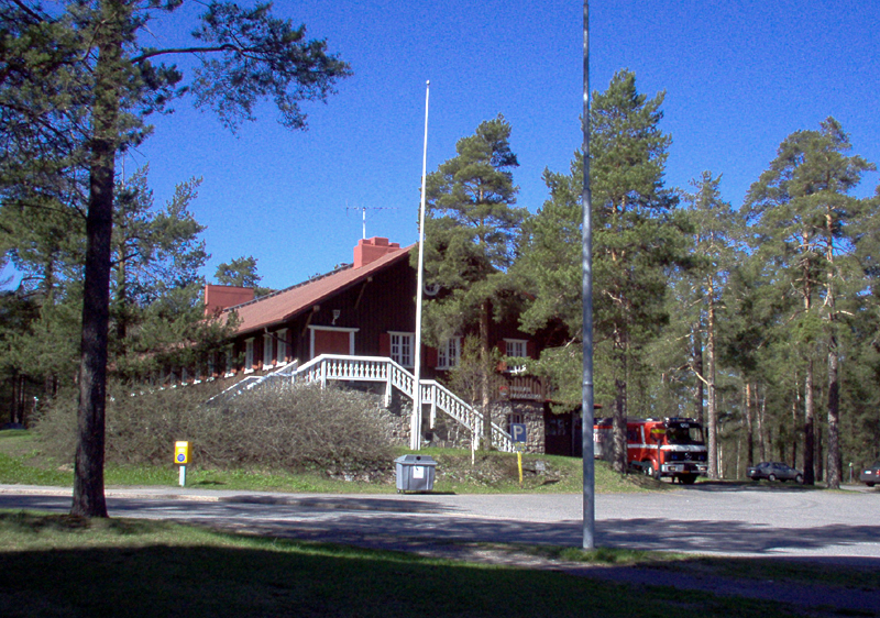 Tuira fire station in Alppila, Oulu, Finland. Completed in 1942.